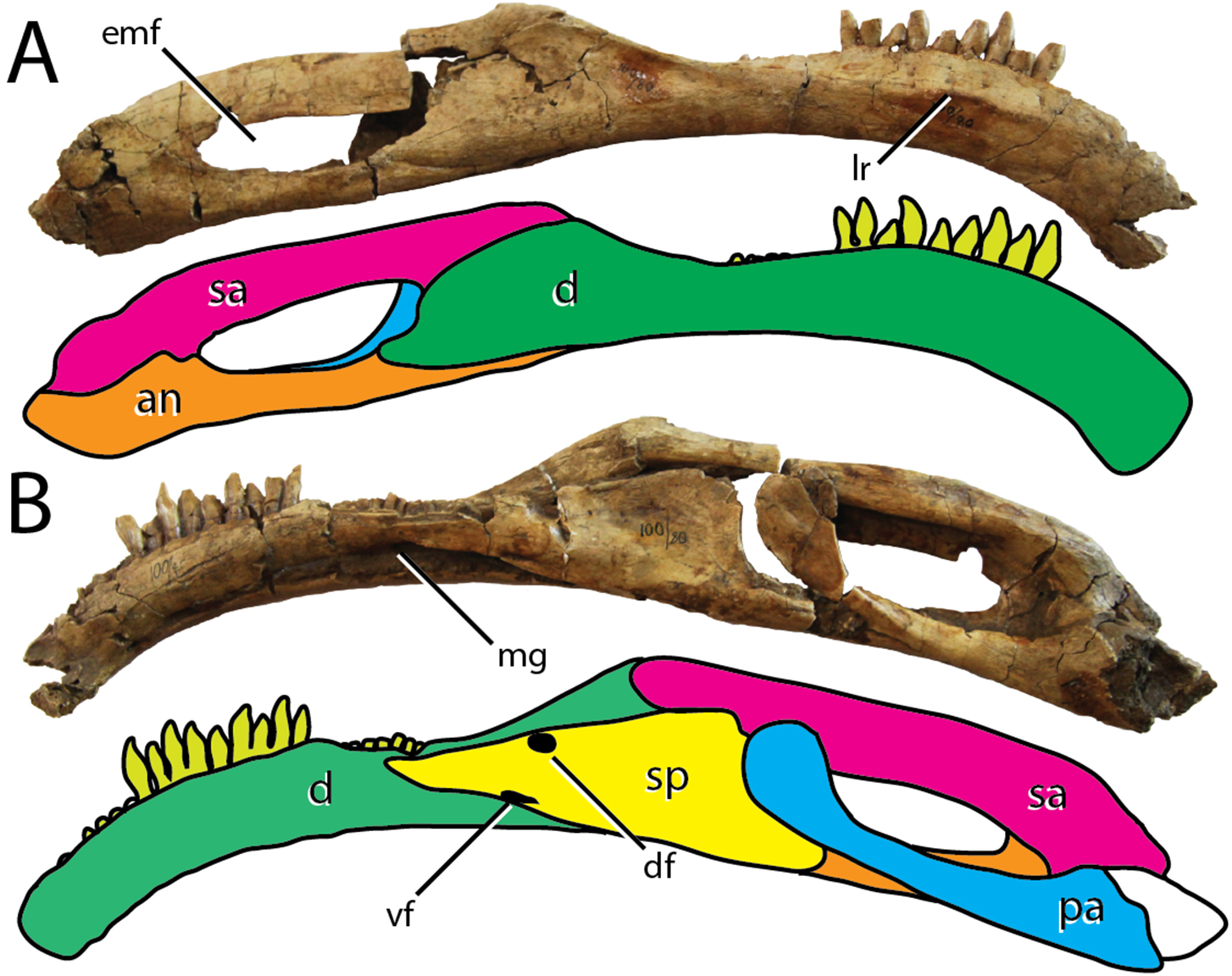 Right hemimandible of Segnosaurus galbinensis in (A) lateral view and (C) medial views. Dentary (green), surangular (pink), angular (orange), splenial (yellow), prearticular (blue), articular (gray), teeth (light green). Prearticular reconstructed in drawing of (C). Abbreviations: an, angular; ar, articular; d, dentary; df, dorsal foramen splenial; emf, external mandibular fenestra; lr, labial ridge; mg, Meckelian groove; pr, prearticular; prt, prearticular tab; sa, surangular; sp, splenial; sas, surangular shelf; vf, ventral foramen splenial. Elements not to scale.